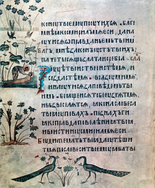 A page from the Kiev Psalter of 1397, preserved in the Russian National Library.